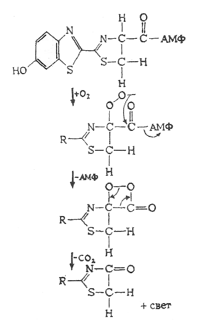 bioluminescence reaction Lampyridae